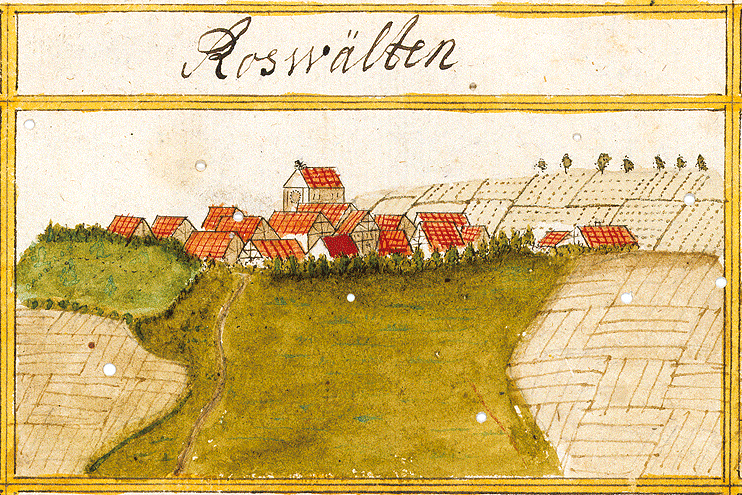 View of Roßwälden, Ebersbach an der Fils, from the forest register books created by Andreas Kieser